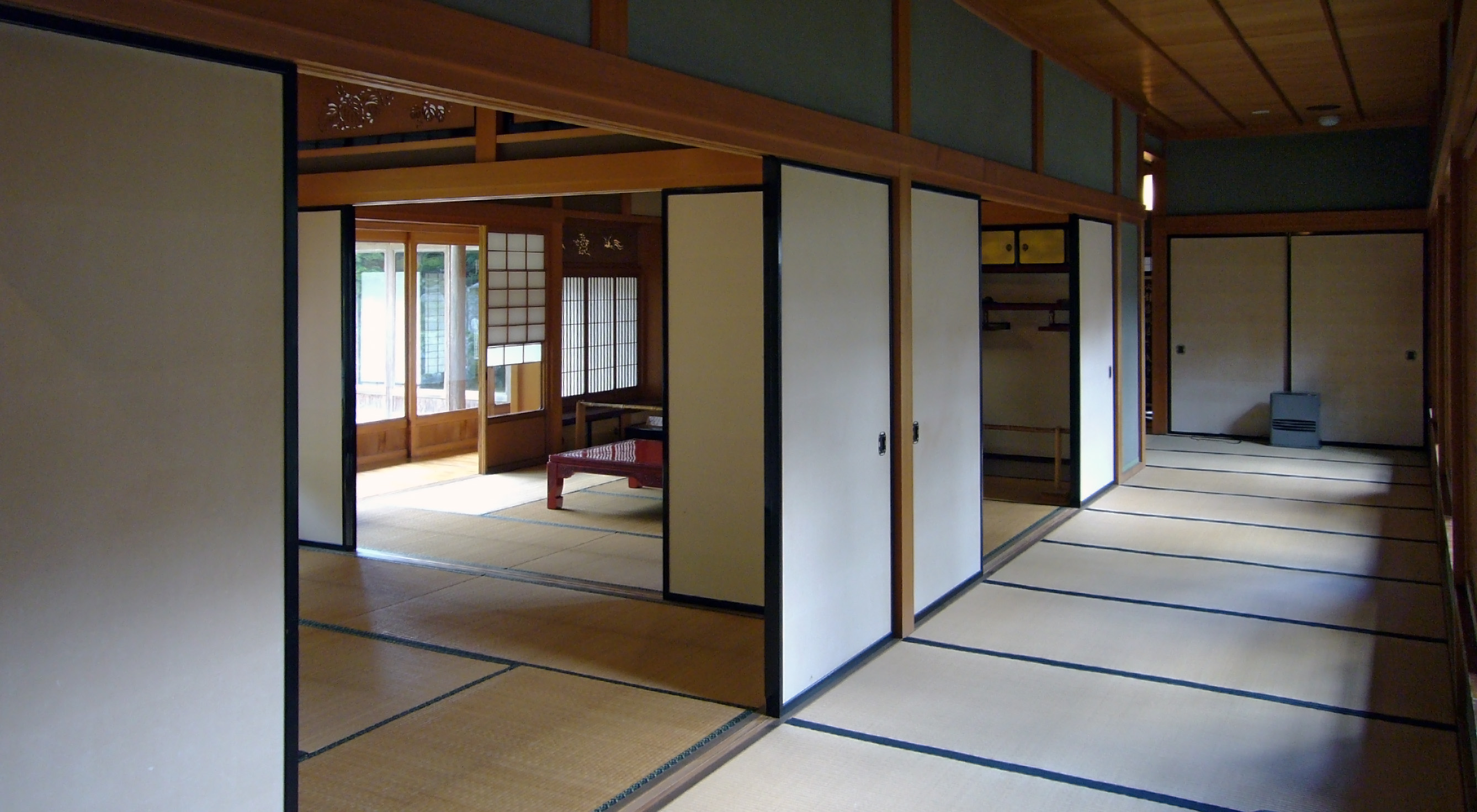 Ishitani Residence in Chidu-cho, Tottori Prefecture, Japan